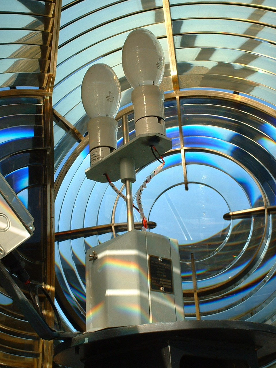 Detail view of lampchanger at Maughold Head Lighthouse, Isle of Mann